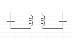 Circuit diagram of a coupled LC circuit